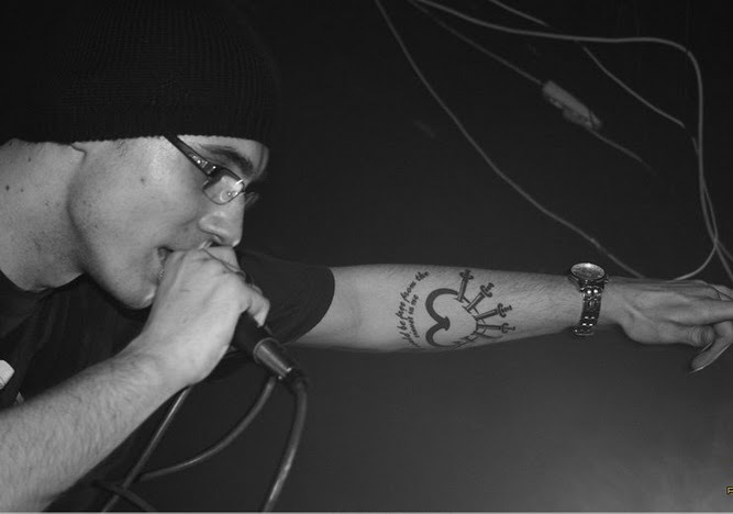 Polish rap singer Paweł "Pezet" Kapliński